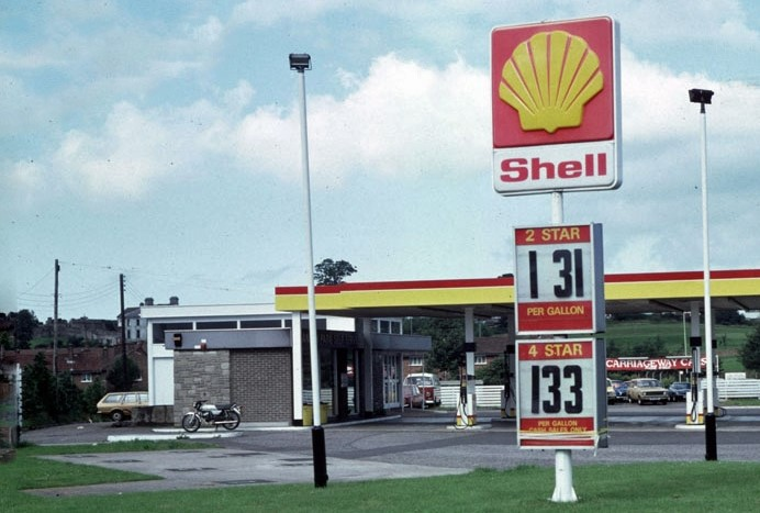 Shell petrol station selling the old 4star (leaded petrol) by the gallon. This AA document suggests that this picture was taken in about 1980.